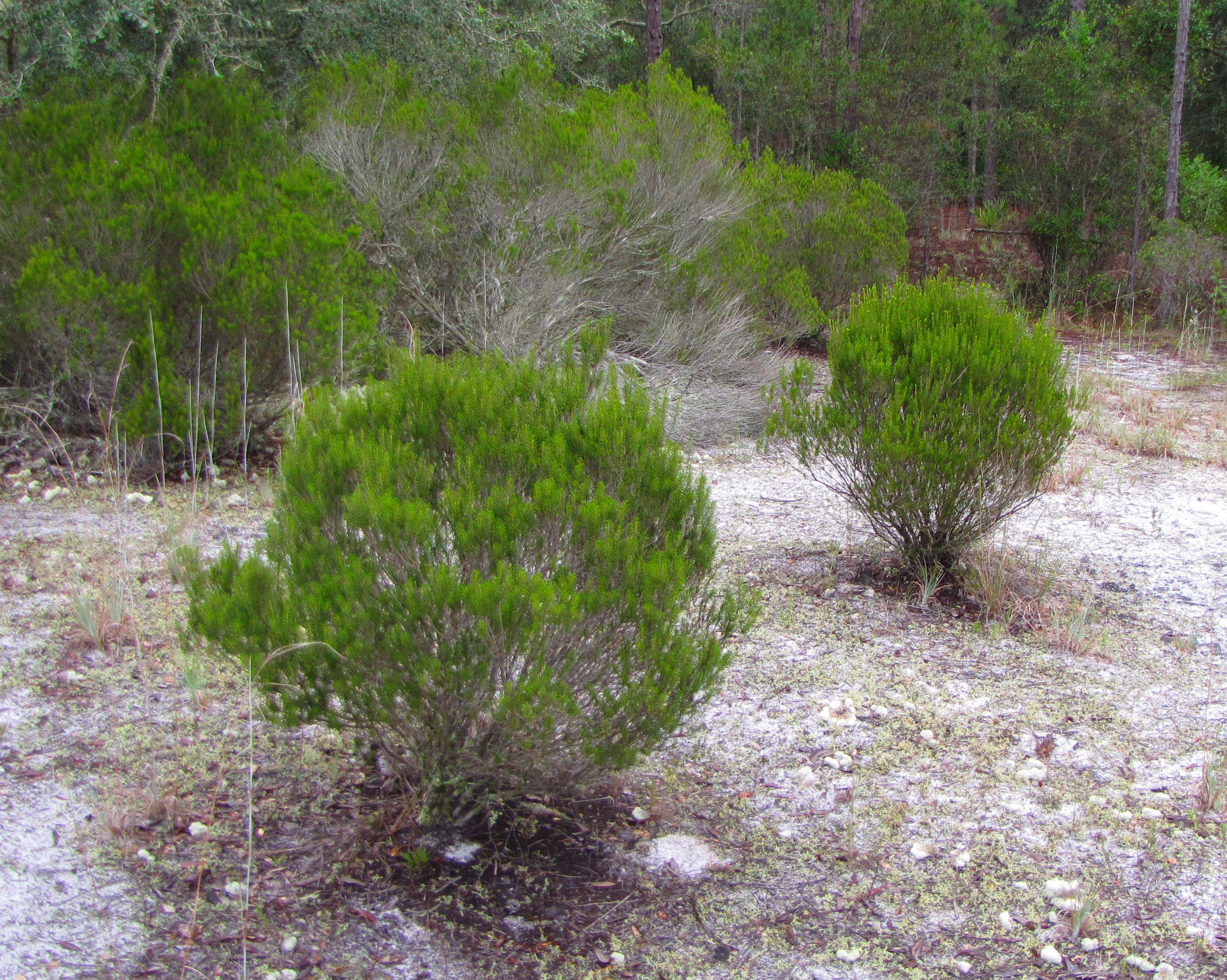 Ceratiola ericoides, Johnson Pond Trail, Trailwalker Trail, Withlacoochee State Forest, Citrus County, Florida